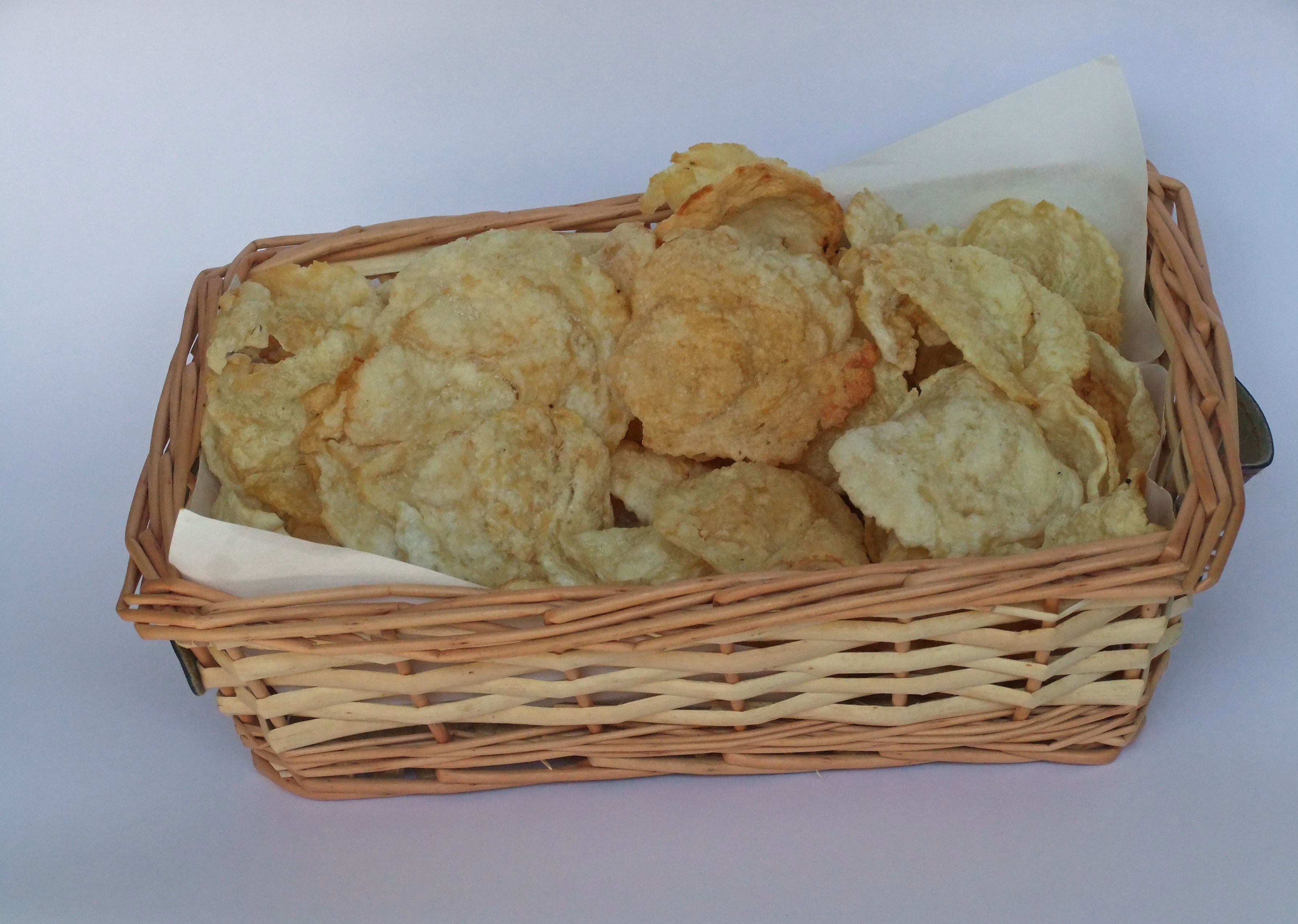 Fried emping from Sidoarjo, East Java.